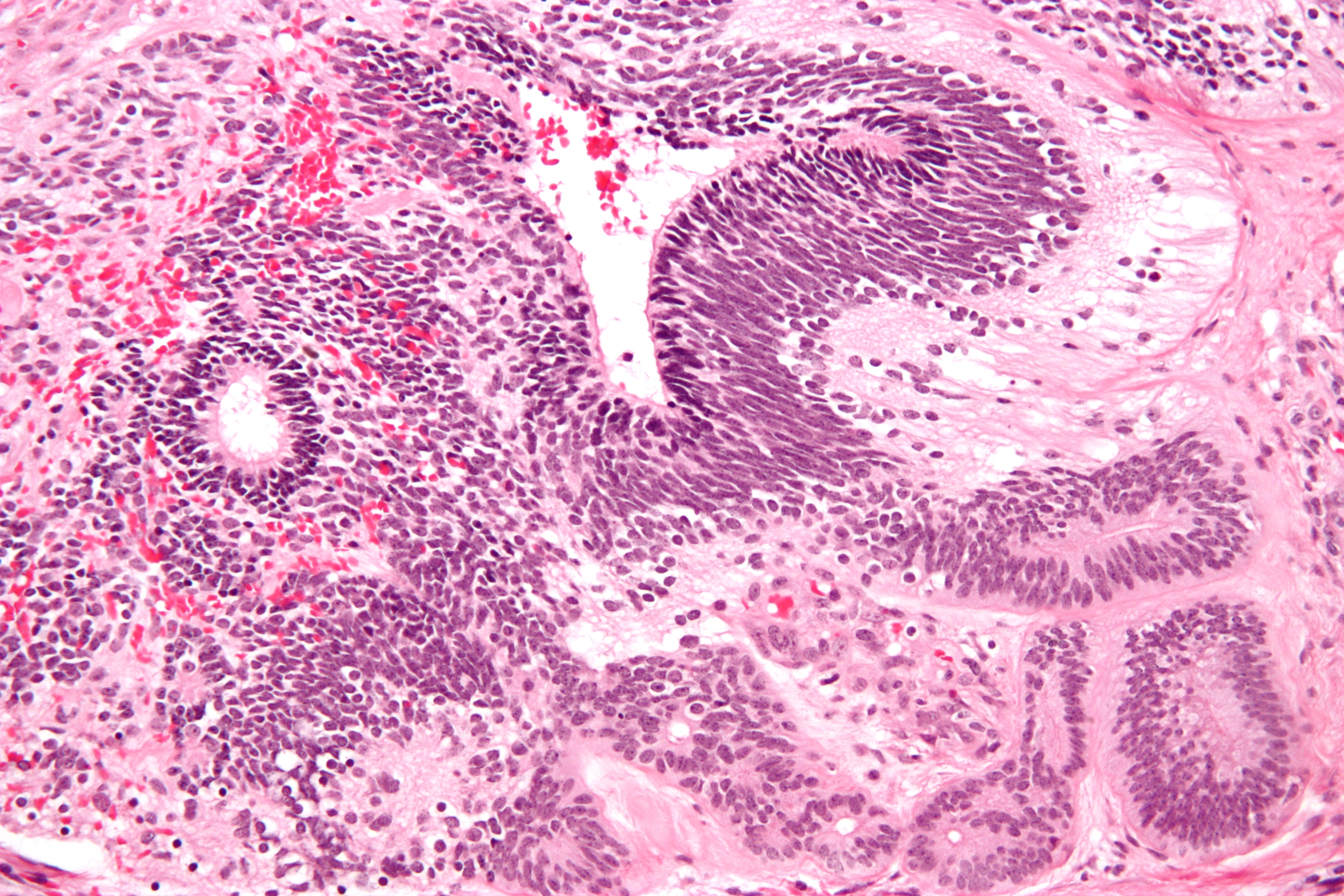 Micrograph of the primitive neuroepithelium of an immature teratoma. H&E stain. Related images Intermed. mag. - mature components only. Intermed. mag.